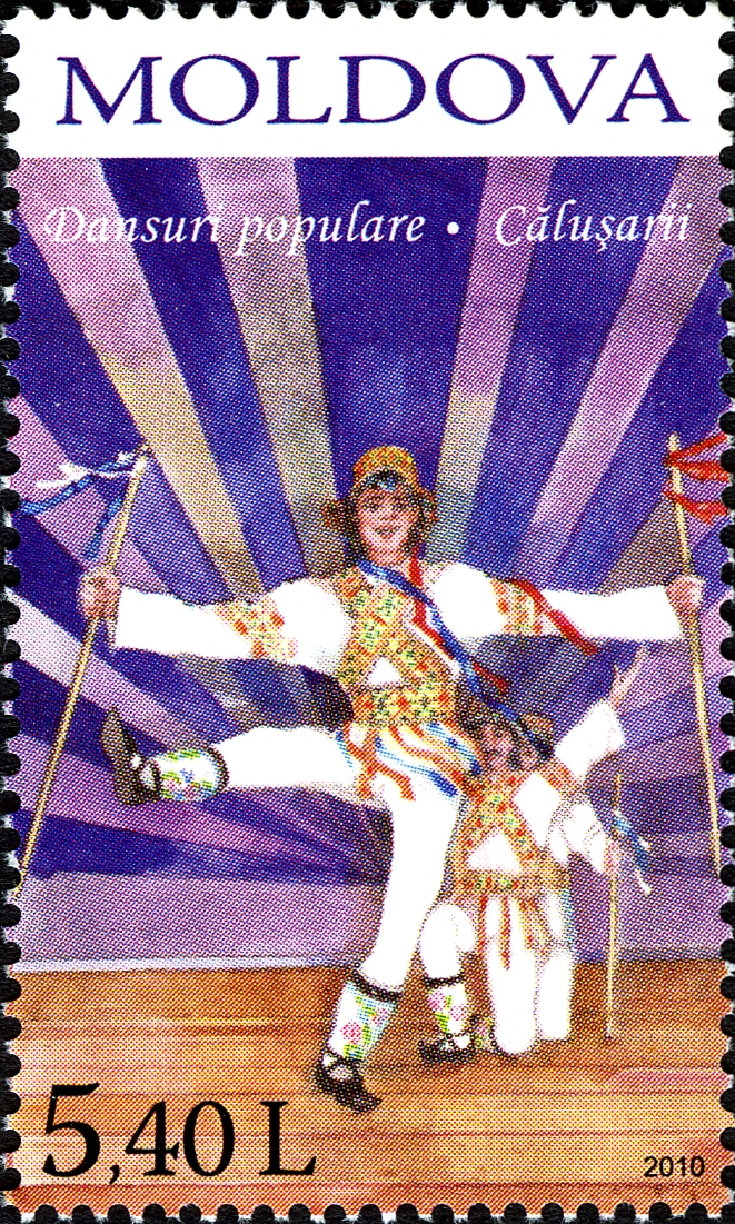 Stamps of Moldova, 2010